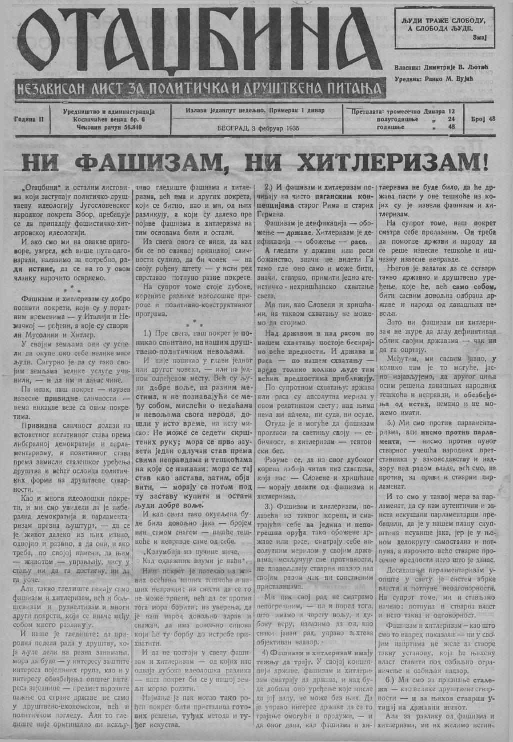 Otadžbina, newspapers of the Yugoslav People's Movement Zbor. Here they talk about differences of their ideology and ideology of fascism and nazism. Српски (ћирилица): Новине ЈНП Збора, Отаџбина. У овом издању говоре о разлици њихове идеологије и идеологије фашизма и нацизма.